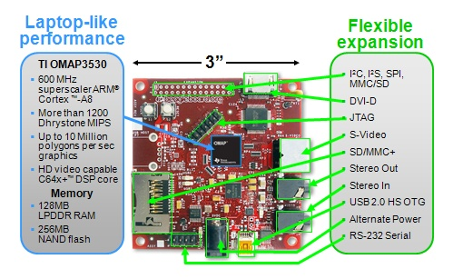 BeagleBoard by Texas Instruments described